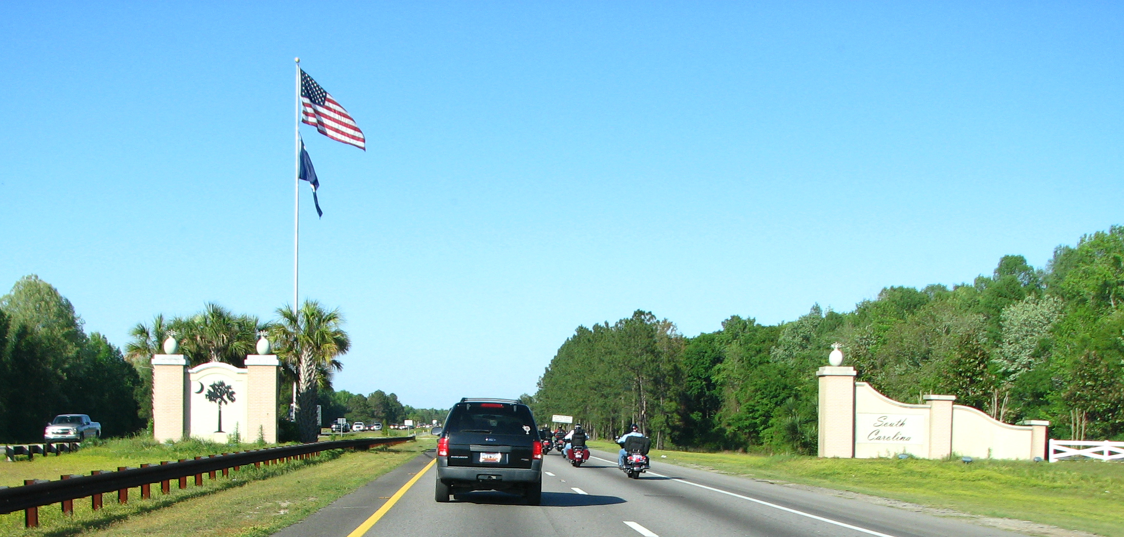 The South Carolina State Line as seen on Interstate 95, North Bound